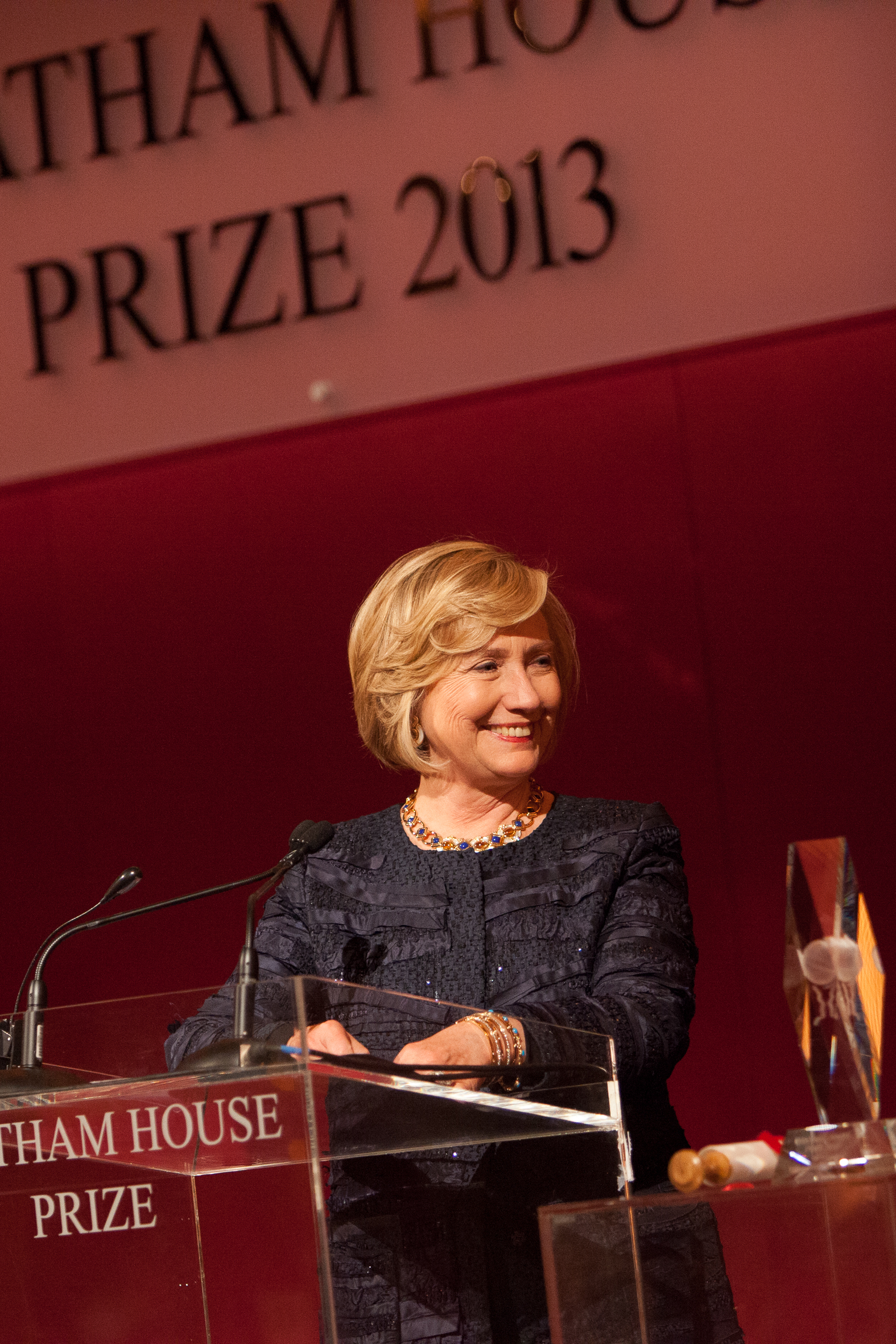 11 October 2013 cht.hm/XVYPy2